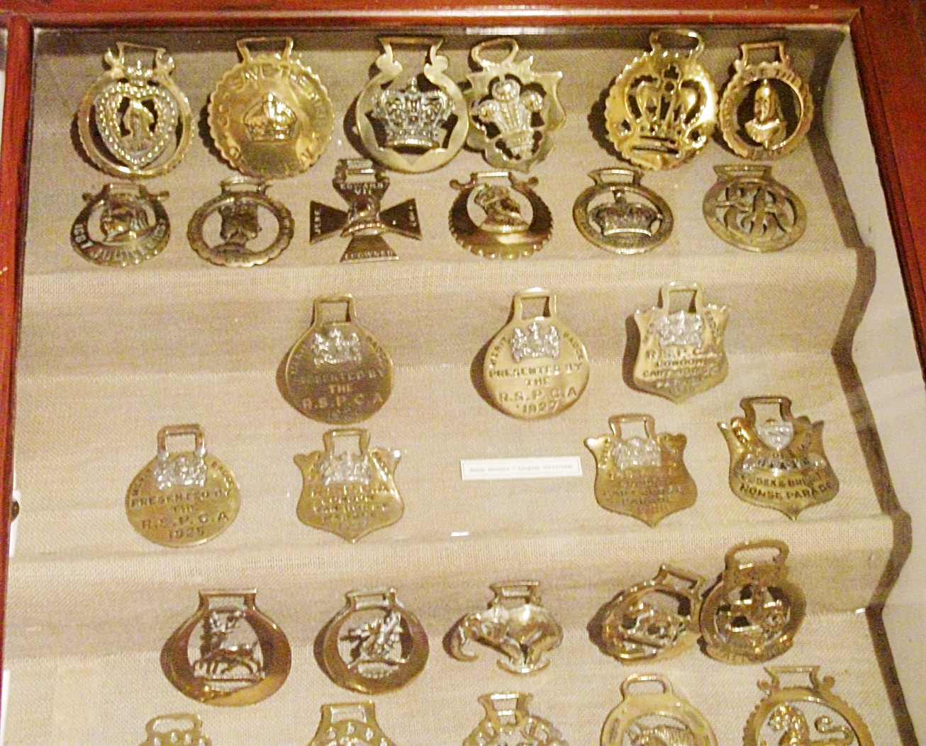 A display of horse brasses from the Langdon collection, in Bedford Museum.